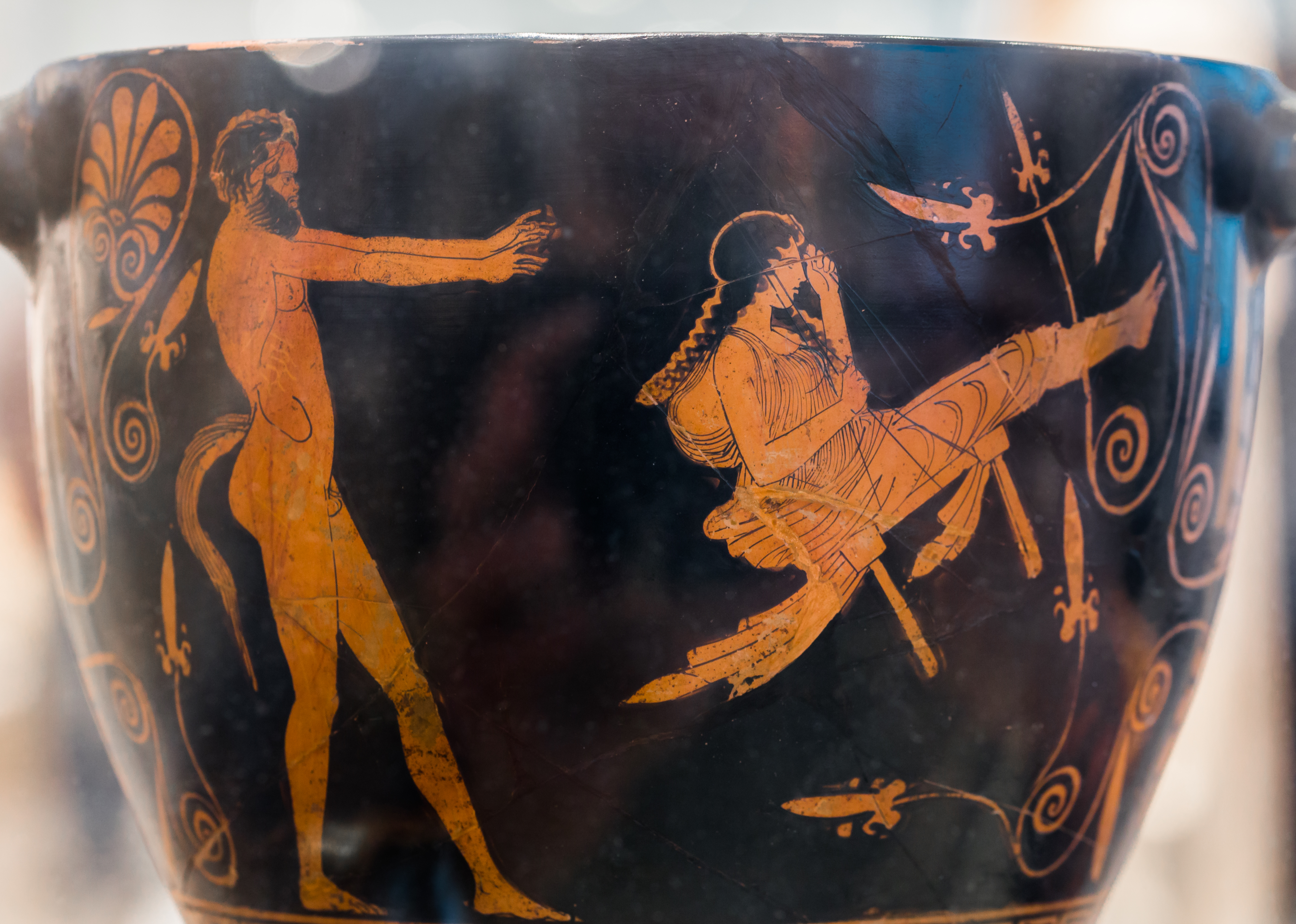 object type / vase shape: attic red figure skyphos type A - description: scenes from the festival of Anthesteria at Athens (?): side A: satyr swinging a woman; inscription: EIA O EIA KALE - side B: satyr escorting the Basilinna (wife of the Archon Basileus) with an umbrella - production place: Athens - painter: Penelope Painter - period / date: classical, ca. 440 BC - material: pottery (clay) - height: 20,3 cm - findspot: Chiusi - museum / inventory number: Berlin, Altes Museum (Antikensammlung) F 2589 - bibliography: John D. Beazley, Attic Red-Figure Vase-Painters, Oxford 1963(2), 1301, 7 - - Please note: The above museum permits photography of its exhibits for private, educational, scientific, non-commercial purposes. If you intend to use the photo for any commercial aime, please contact the museum and ask for permission.